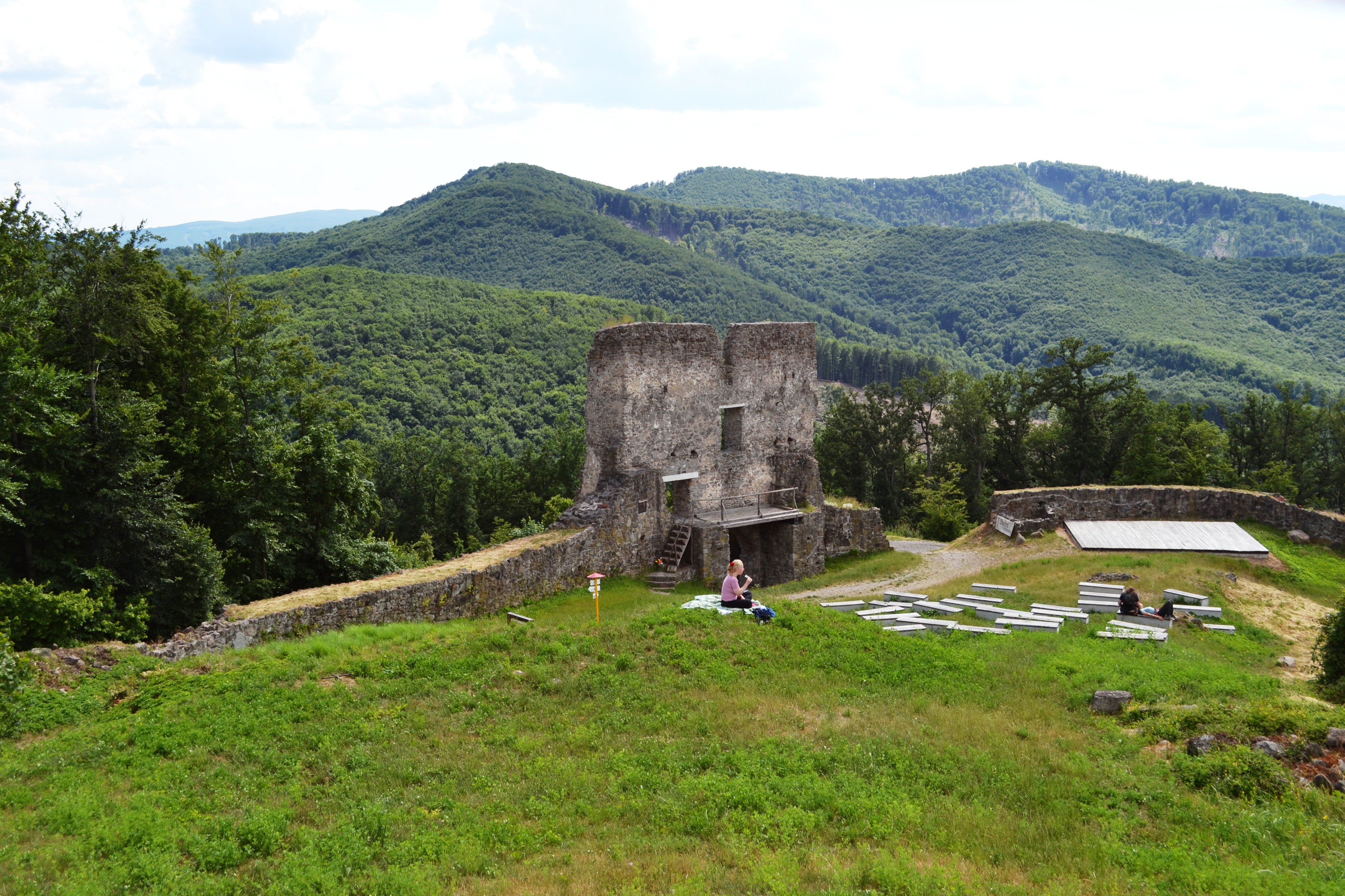 Enter gate of Pustý hrad (Deserted Castle)